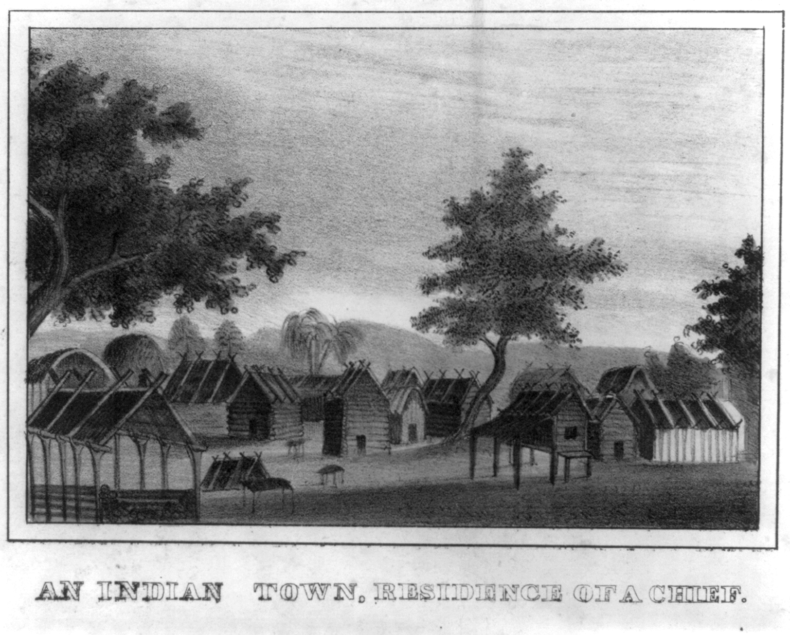 Downloaded from TITLE: An Indian town, residence of a chief CALL NUMBER: PGA - Gray & James--Indian town... (A size) [P&P] REPRODUCTION NUMBER: LC-USZ62-53566 (b&w film copy neg.) RIGHTS INFORMATION: No known restrictions on publication. MEDIUM: 1 print : lithograph, hand-colored. CREATED/PUBLISHED: [Charleston, S.C. : T.F. Gray and James, 1837] CREATOR: Gray & James. NOTES: No. 2 in set of 8 "Views of Florida." The State Library and Archives of Florida cites as "Lithographs of events in the Semonole War in Florida in 1835. Issued by T.F. Gray and James of Charleston, S.C., in 1837."